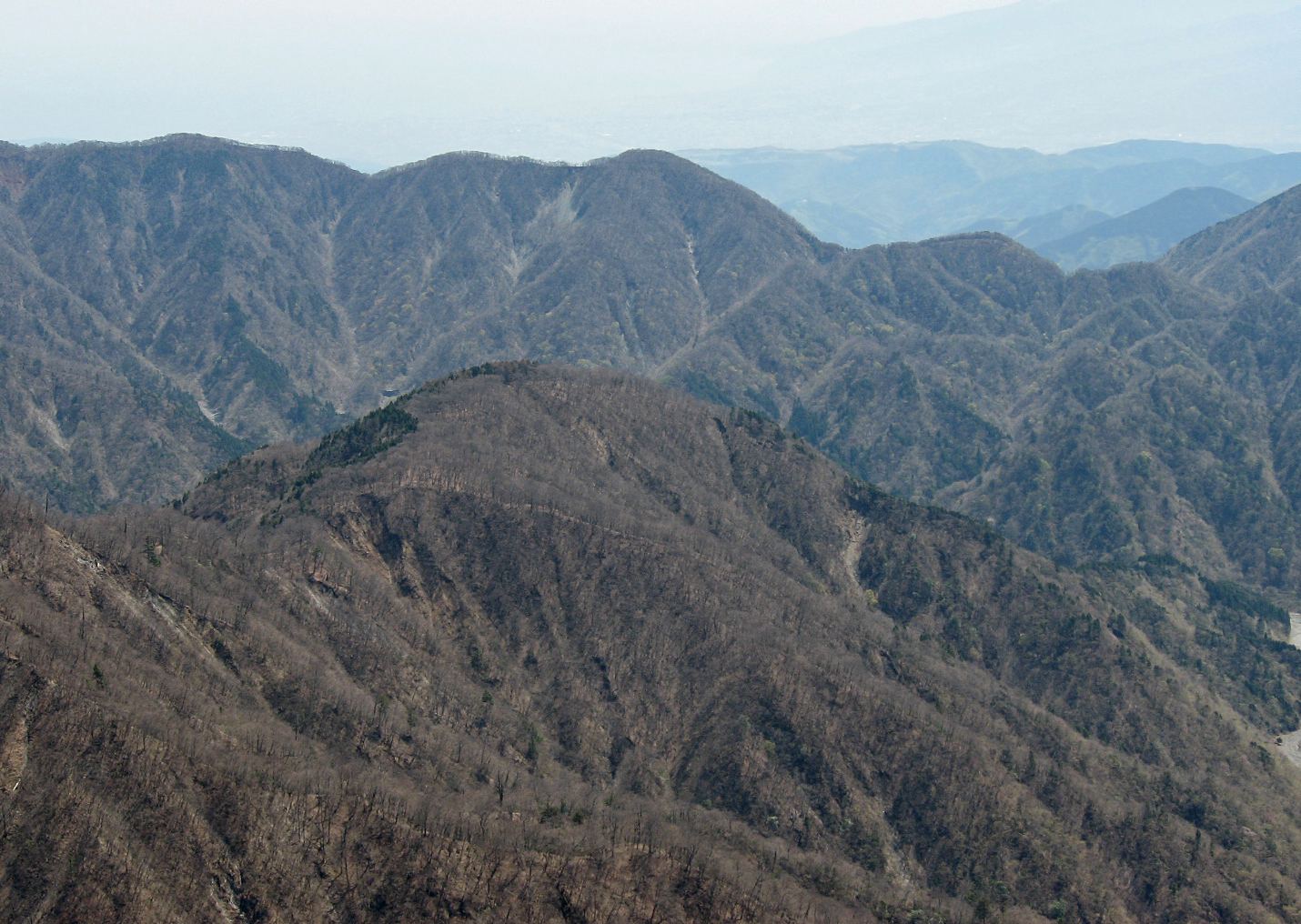 Mt.Nabewari (鍋割山 Nabewari-yama) as seen from Mt.Hirugatake (蛭ヶ岳 Hiru-ga-take), Kanagawa pref, Honshu, Japan.